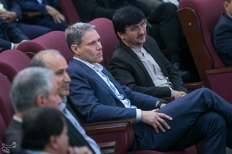 Marco van Basten in Tehran